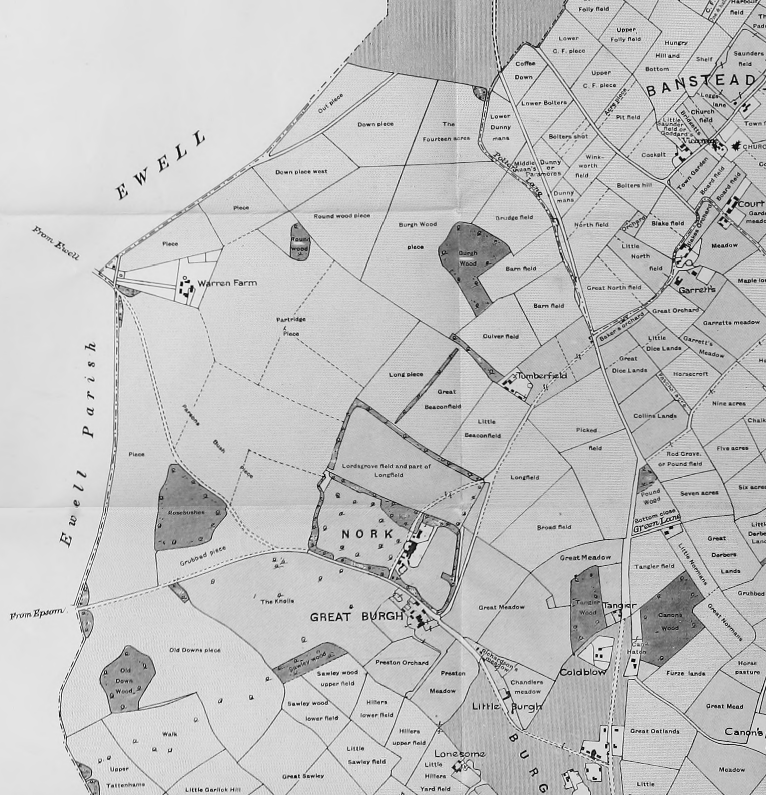 Part of a map in Lambert, H.C.M. 1912 History of Banstead in Surrey, based on a tithe map of 1841. This section shows much of what is present-day Nork. The map must be twisted 25° clockwise to point north. The width is 2.7 km.